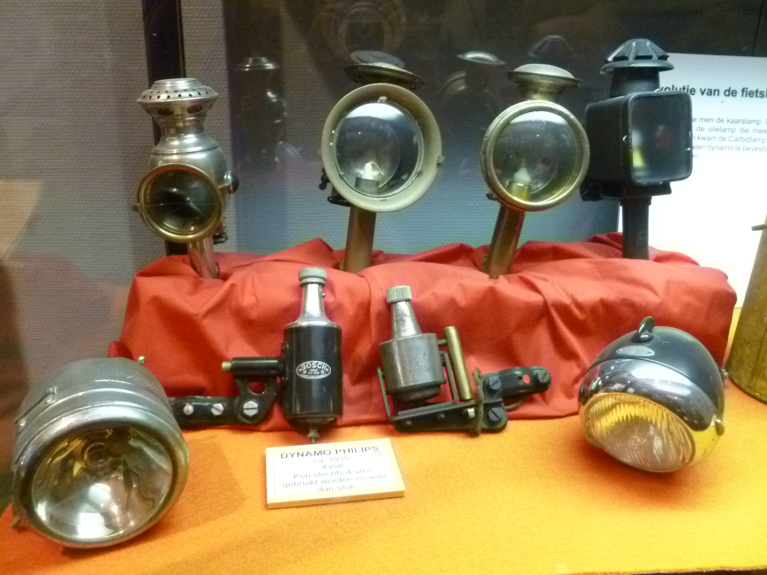 Early bicycle lights and two early bottle dynamos; Nationaal Wielermuseum (National Bicycle Museum), Roeselare, Belgium